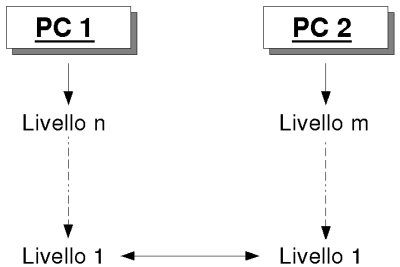 Visualization of network protocol